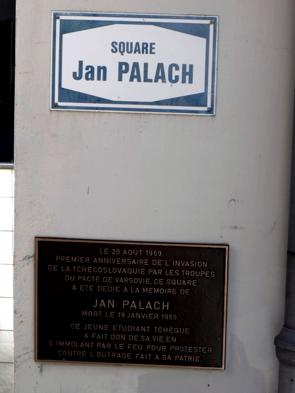 Square of Jan Palach in Luxembourg